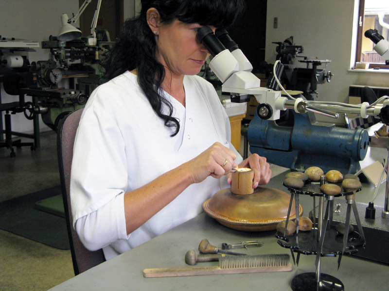 Ordeal for art: It takes several days for master engraver to decorate Swiss movement part for a Louis George watch.